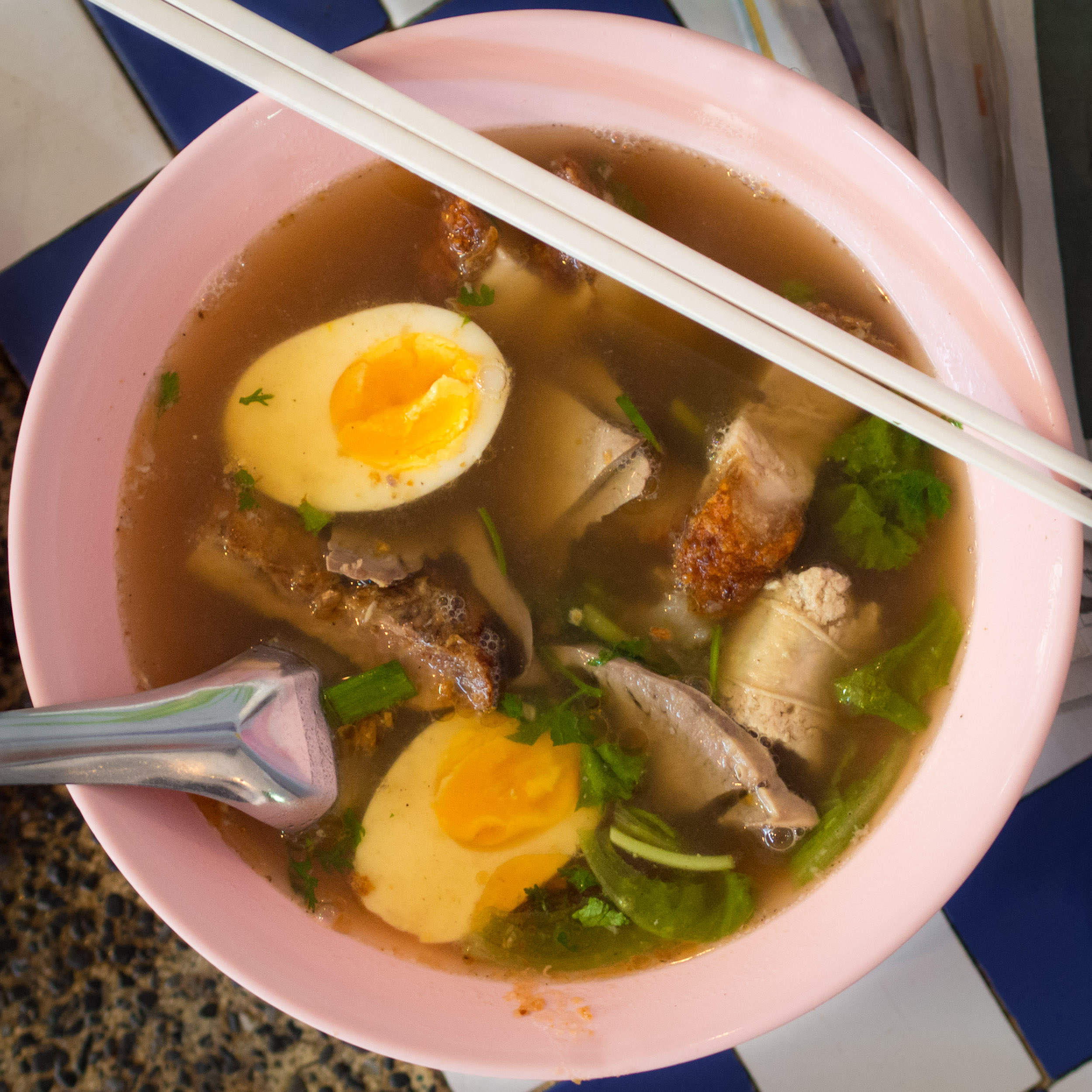 Kaolao (Thai script: เกาเหลา) is a Thai soup of Chinese origin which contains only meat and vegetables, A proper kaolao will normally always contain offal, often pork liver and intestines such as here, and in this particular case also boiled eggs, crispy pork, and white pork sausage. If one goes to a regular noodle soup shop and asks to have a dish kaolao, the soup will be served with whatever meats and vegetables are asked for, but without any noodles. Due to this dish being of Chinese origin, chopsticks are provided. Some people eat this with steamed rice on the side.